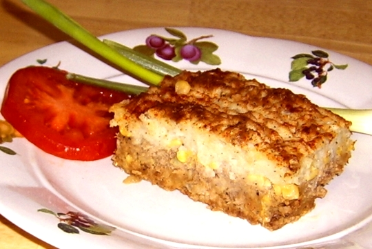 shepherd's pie